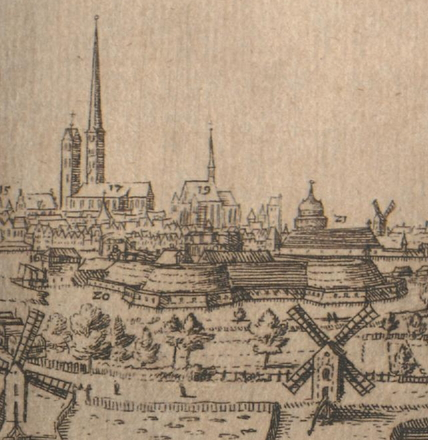 Cut of Bremen seen across Weser river in 1603, showing the cathedral, St-Johns's, Ostertor fortifications and Braut fortress